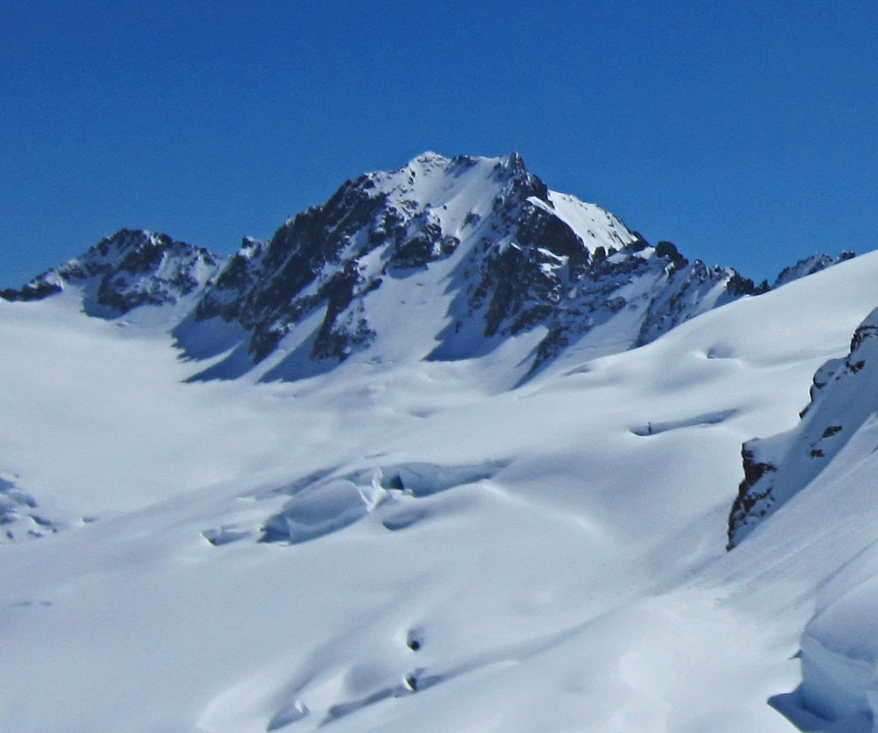 North face of Buckner from the Boston Glacier, North Cascades National Park